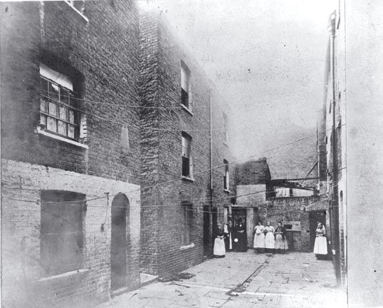 Photo of Boundary Street, London, taken in 1890, part of the Old Nichol slum.